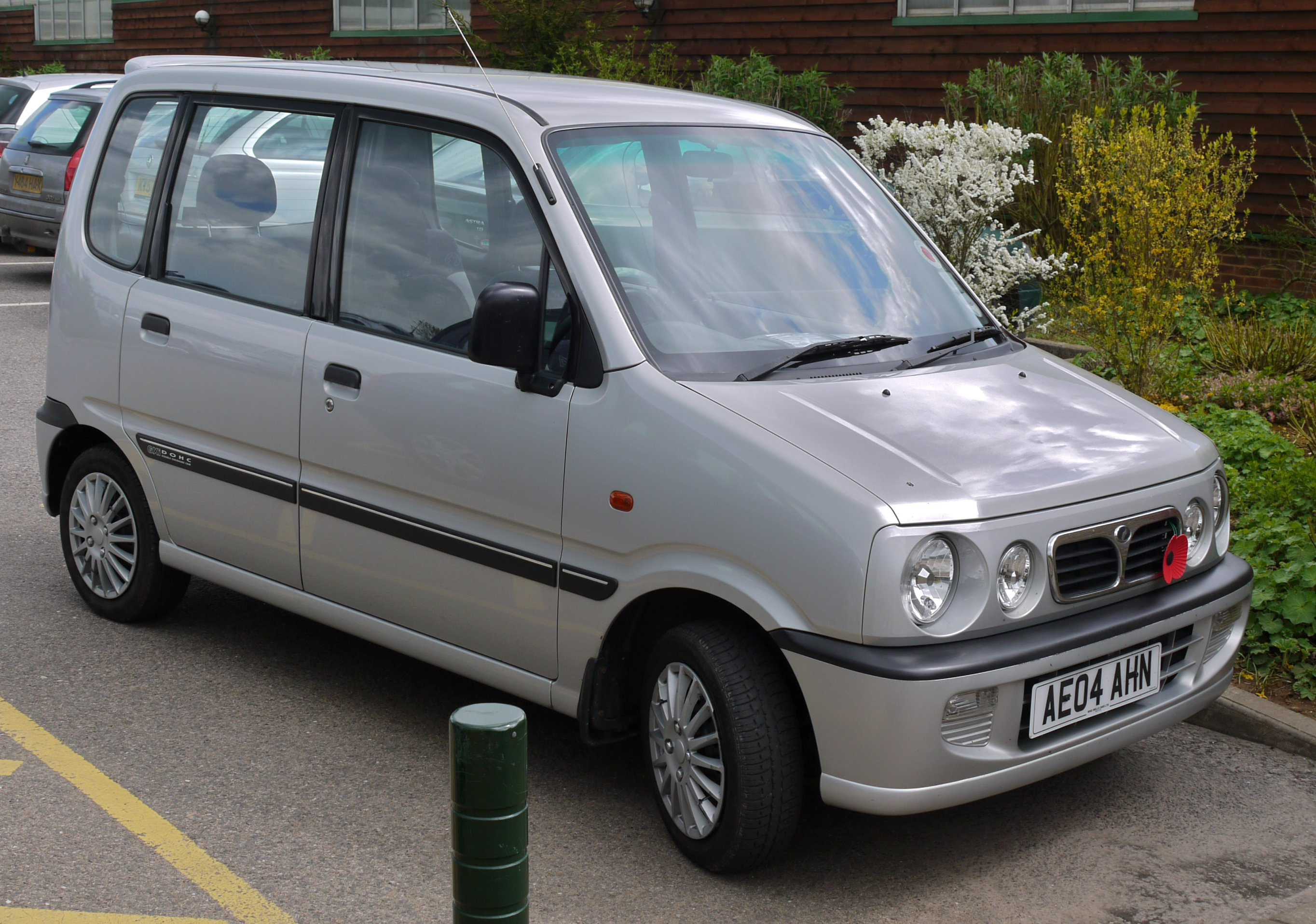 Based on the earlier Daihatsu Move. Panasonic G1 14-45 Lens